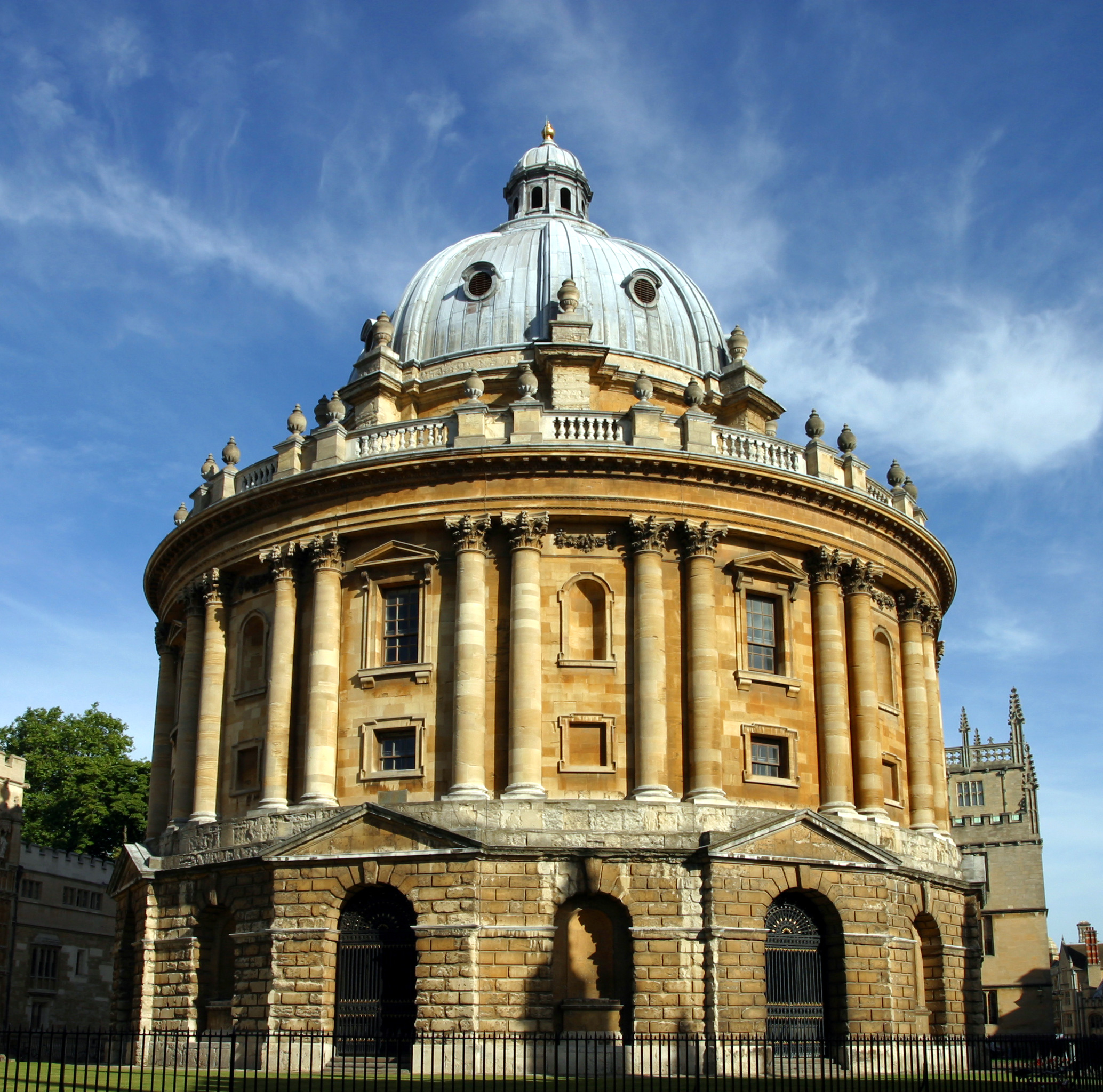 The Radcliffe Camera in Radcliffe Square, Oxford, England.